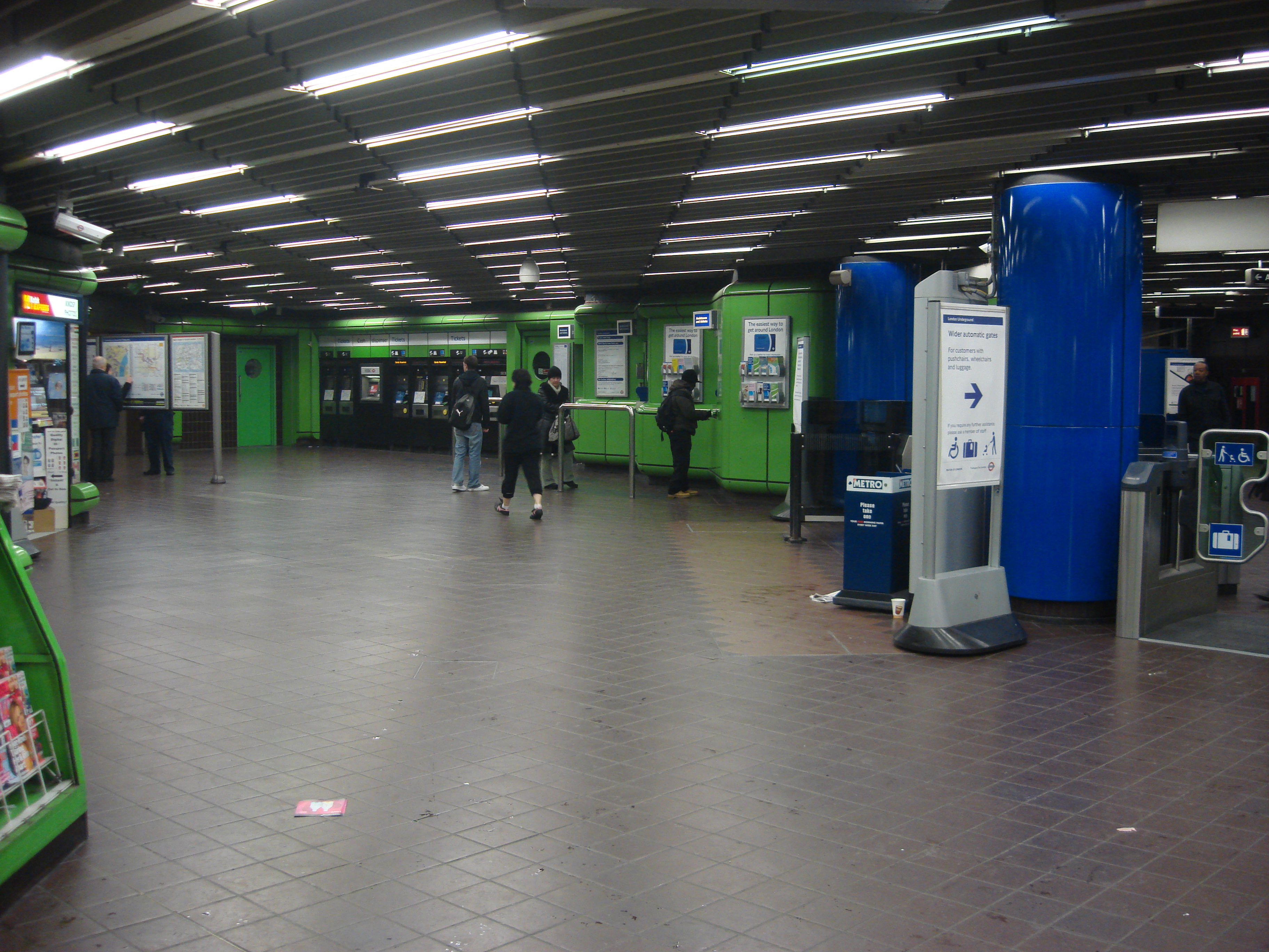 Charing Cross tube station, ticket office